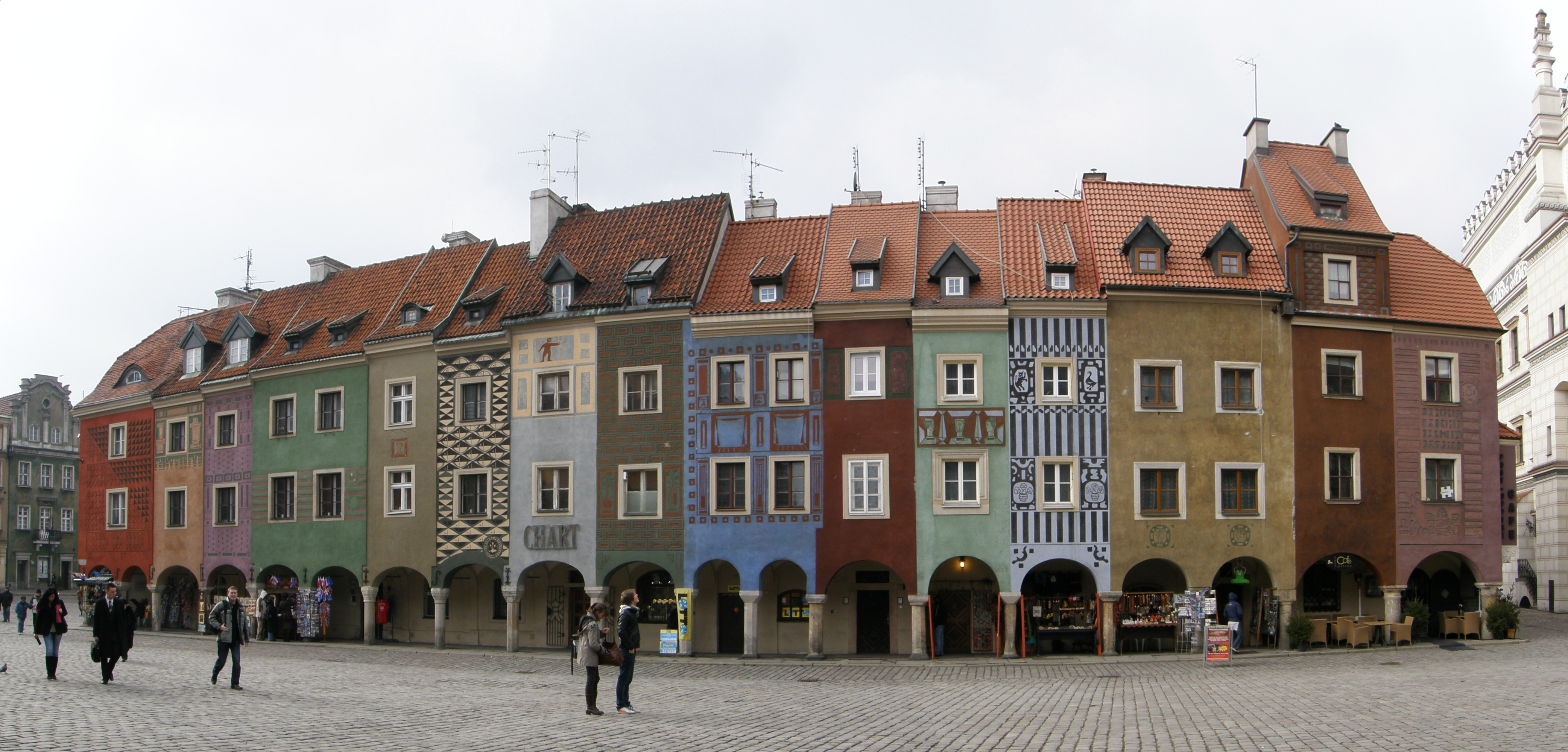 The houses in the Old Market Square in Poznań